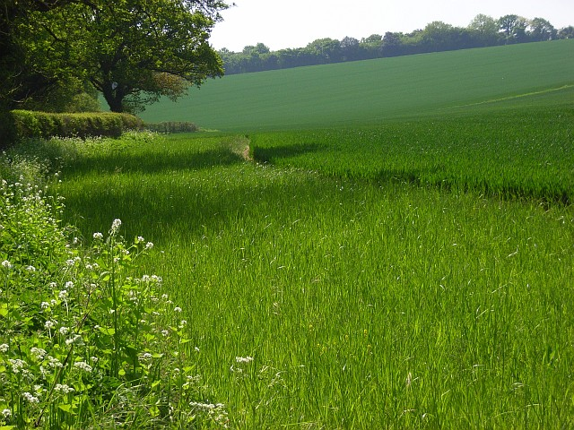 Farmland near Overton A spring view of wheat and a roadside hedgerow. The woodland is on the Harrow Way.